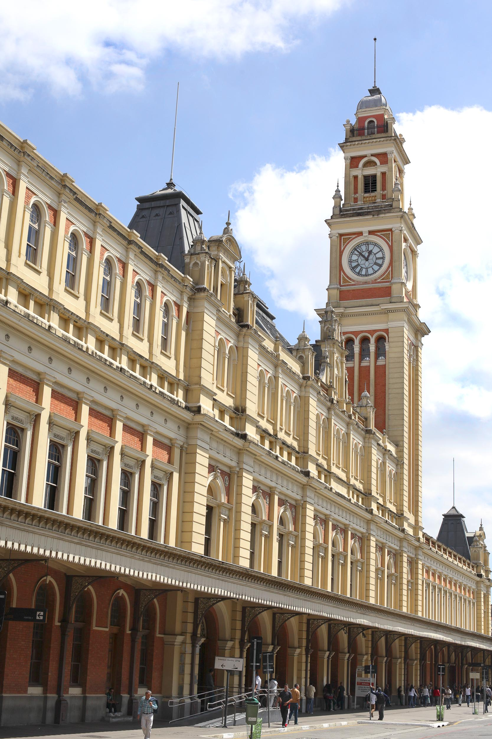 Light Station (Estação da Luz) -. Main entrance of the Light Station She was delivered to the public on March 1, 1901. The structures were brought from England copy freely, Big Ben and the Abbey Westminster.Em 1982 the architectural complex of the season light has been listed by the Council for the Defense of Historical, Artistic, Archaeological and Tourism (Condephaat). The building occupies the Garden of Light and home to the Museum of the Portuguese Language and the interconnection of yellow and blue lines of the São Paulo Metro with trains of CPTM (Cia. Paulista Metropolitan Trains)